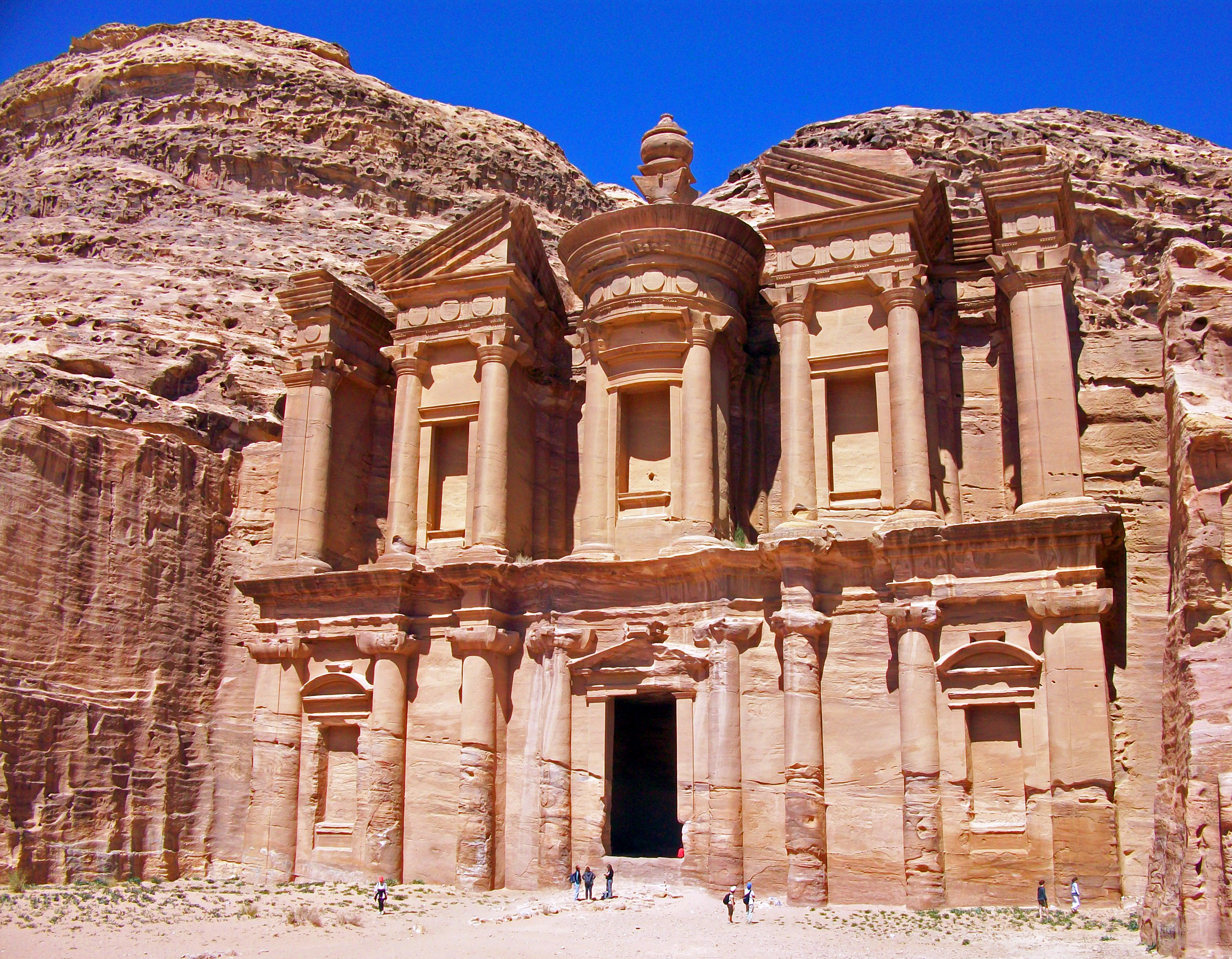 Ad-Deyr ("The Monastery") at Petra, Jordan.